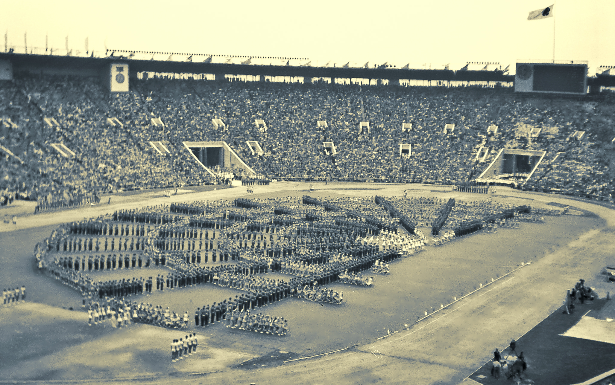 6th World Festival of Youth and Students (1957). Opening day in the Lenin-Stadium. - You may want to have a look at my website (in German)